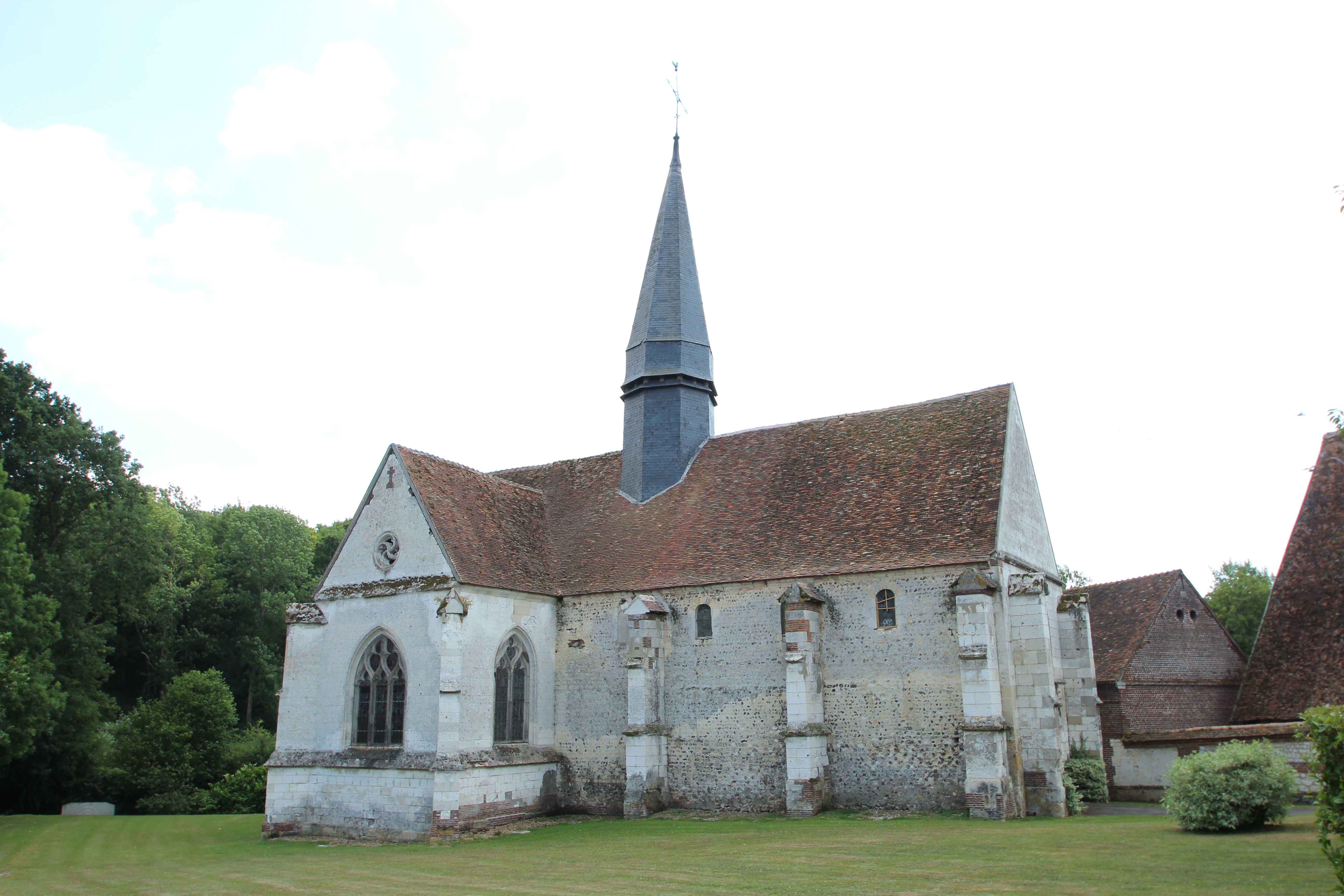 Saint-Aubin church of Guignecourt, France. Object location49° 28′ 56.98″ N, 2° 07′ 48.45″ E .